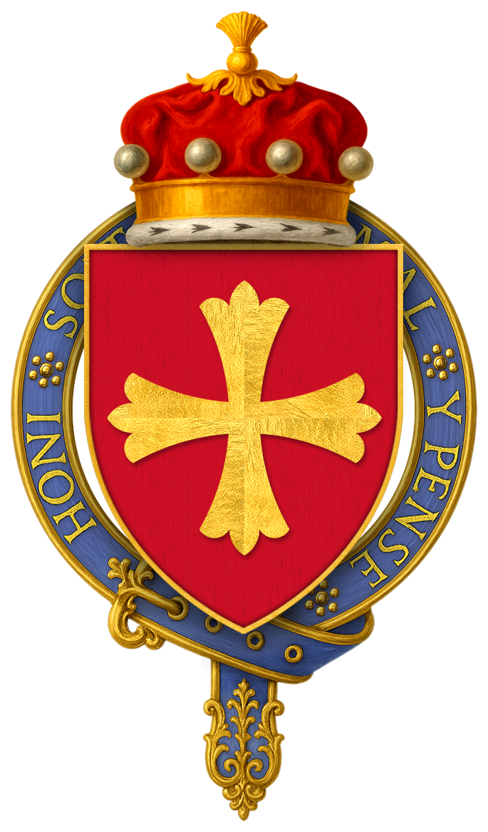 Coat of Arms of Sir William Latimer, 4th Baron Latimer, KG. Blazon: Gules, a cross patonce Or. (not actually a cross flory). “ William Lord Latimer… Arms: Gules, a cross flory Or. ” BELTZ, George Frederick, Memorials of the Order of the Garter from Its Foundation to the Present Time, London: William Pickering, 1841.